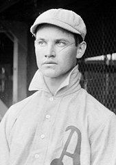 Image of Weldon Henley, baseball player for the Georgia Tech Yellow Jackets in 1900-1901; picture apparently taken in 1905.